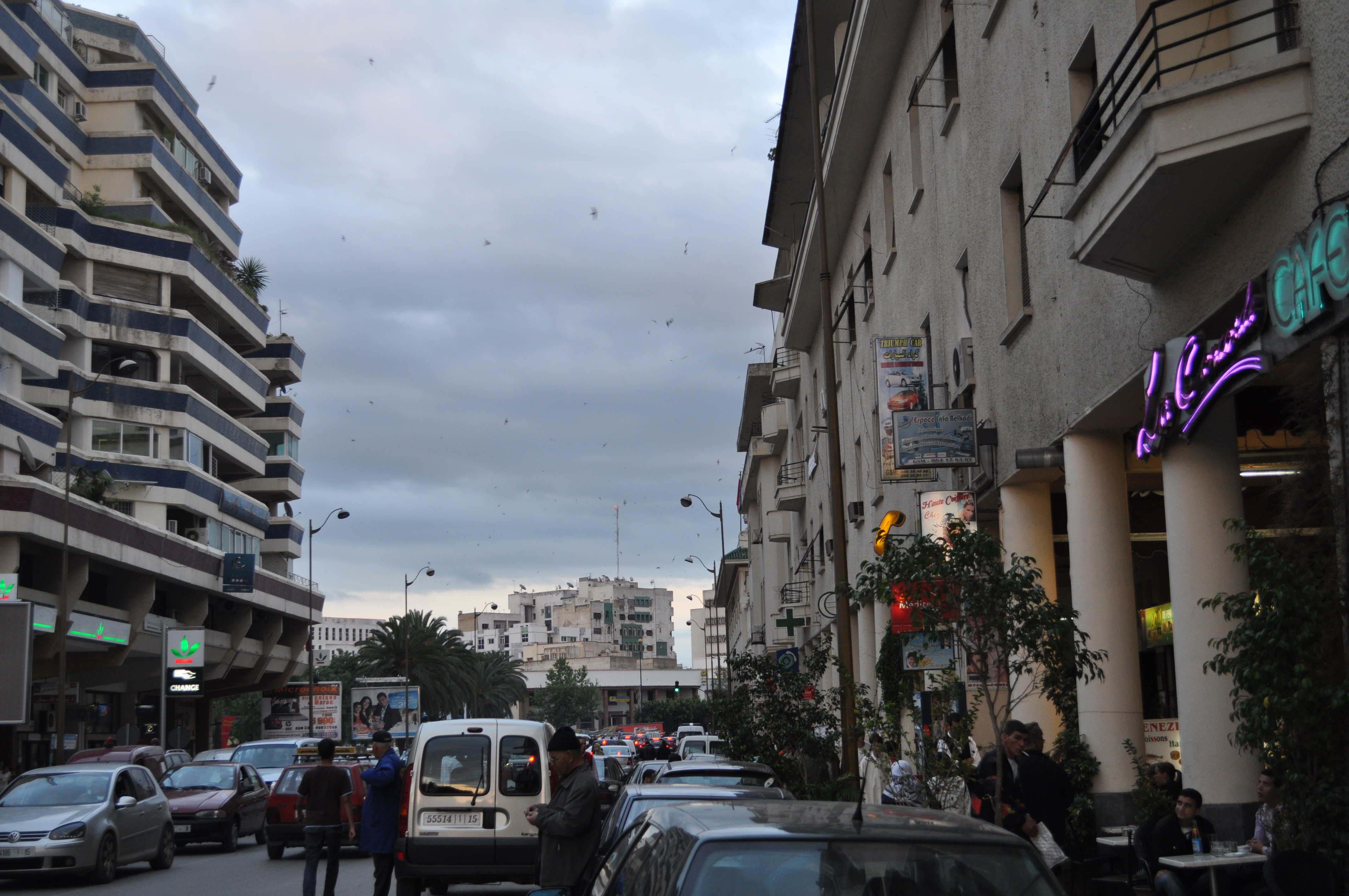 Fes, Morocco